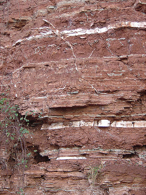 Rocks of the Gunthorpe Formation near Gunthorpe in Nottinghamshire, England, UK. This photo shows some white veins of Gypsum running diagonally across the horizontal beds. These are probably the result of gypsum in solution penetrating cracks in the underlying beds.